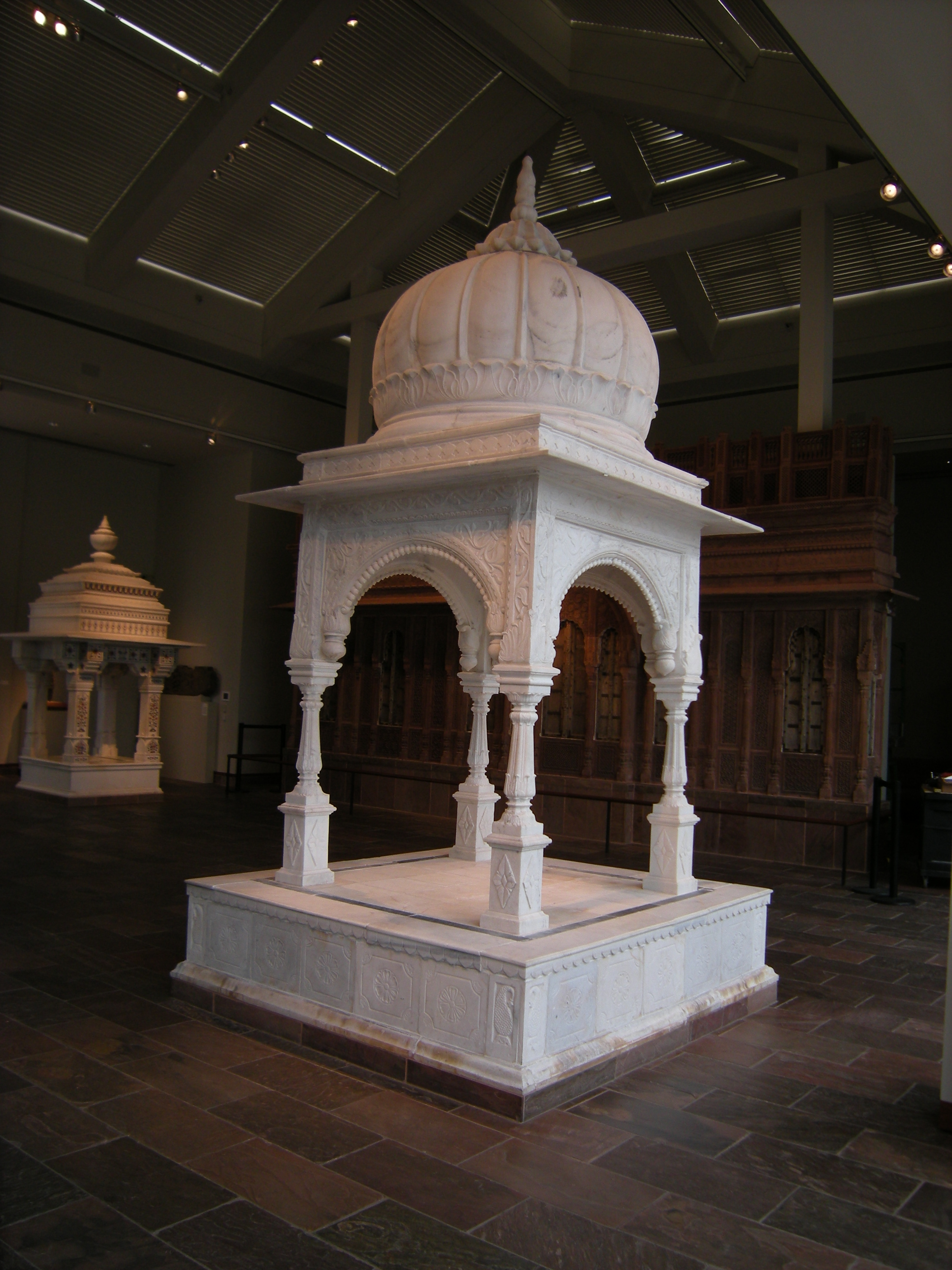 White marble chattri/chhatri (kiosk), Northern India, c. 18th Century. Trammell and Margaret Crow Collection of Asian Art, Dallas, Texas.